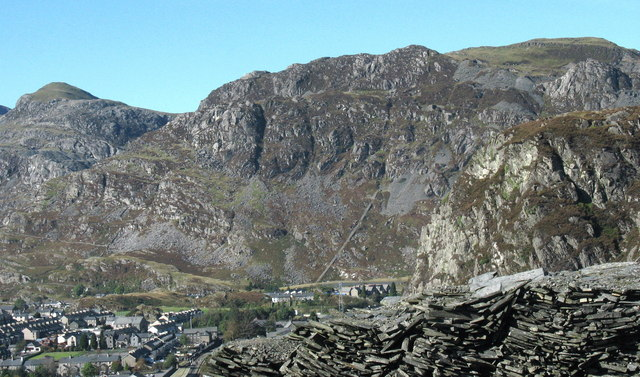 The dramatic incline from Nyth y Gigfran Quarry Chwarel Nyth-y-Gigfran ("raven's-nest quarry) is located on a narrow ledge above a sheer drop. From the 1860s it was served by an incline which joined the Ffestiniog Railway at Glan-y-pwll. This photo was taken from Bowydd Quarry.